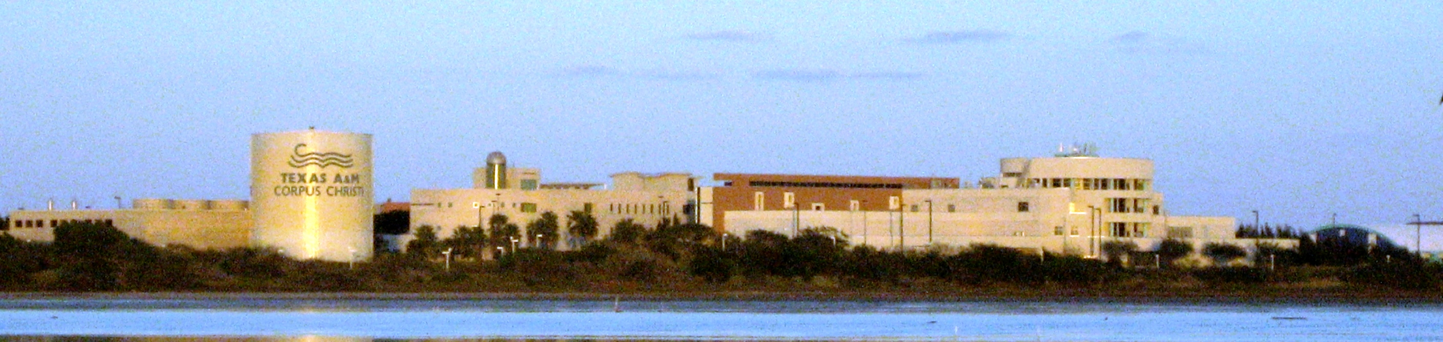 Texas A&M University-Corpus Christi campus. Cropped version of original photo.